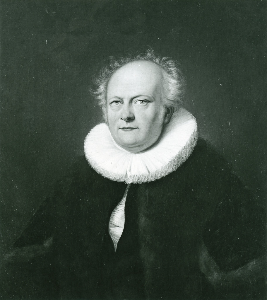 Hamburg mayor Martin Garlieb Sillem (1769-1835), oil painting